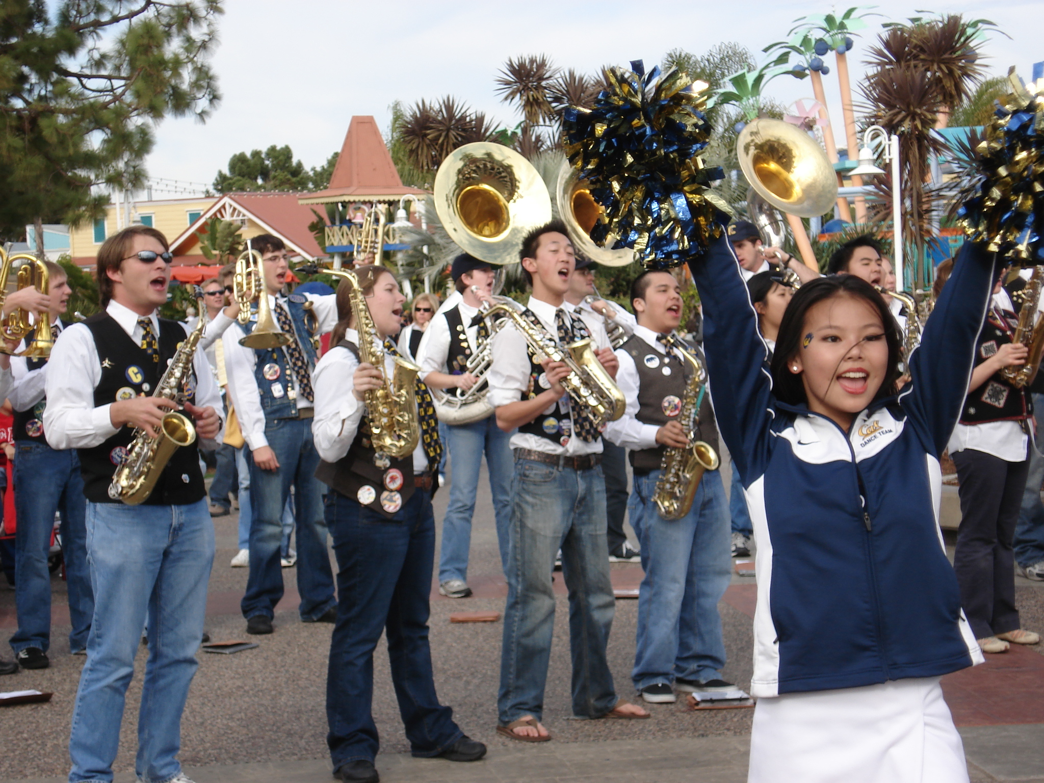 Cal Straw Hat Band at SeaWorld